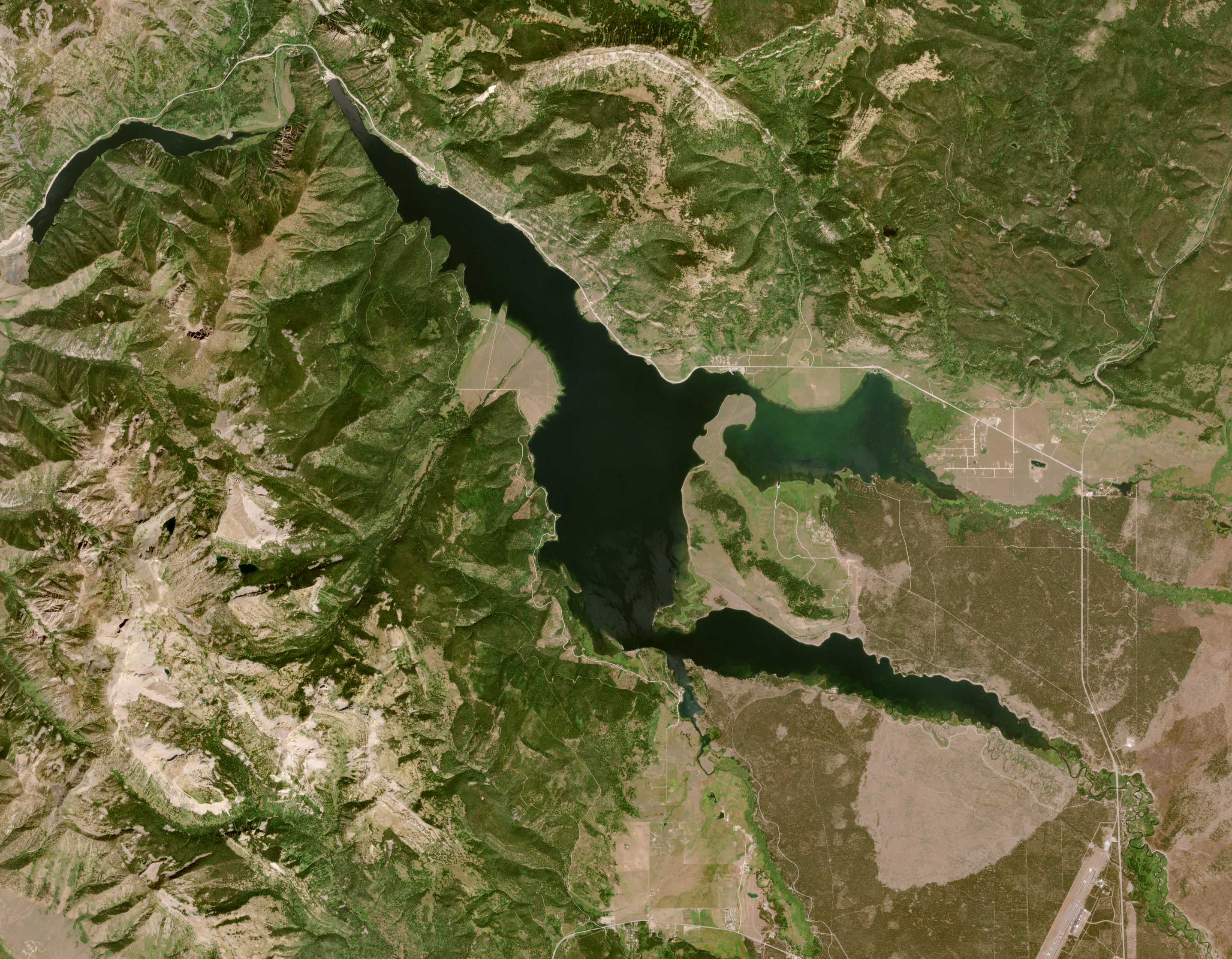 Date: 2018-08-09 Sensor: MSI on Sentinel-2B Resolution: 10m RGB Composites: True color, Band 4-3-2